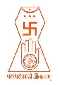 This is the emblem of Jainism. This Jain symbol was agreed upon by all Jain sects in 1974.